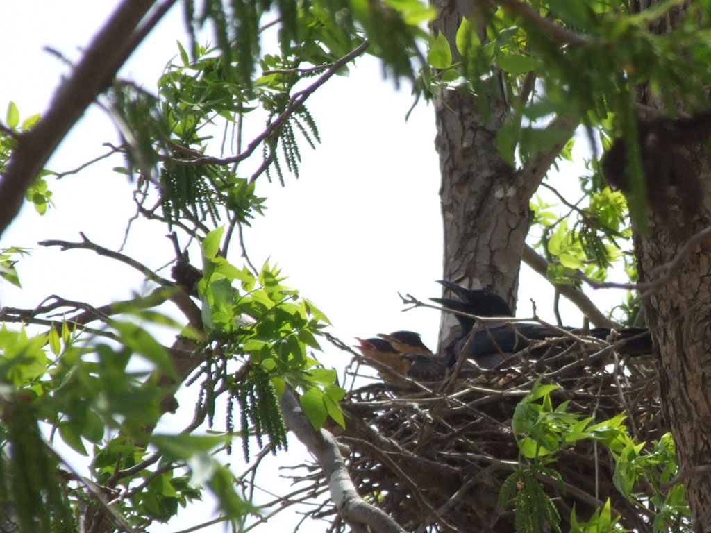 Eurasian Magpie (Pica pica) mother , Great Spotted Cuckoo (Clamator glandarius) chicks